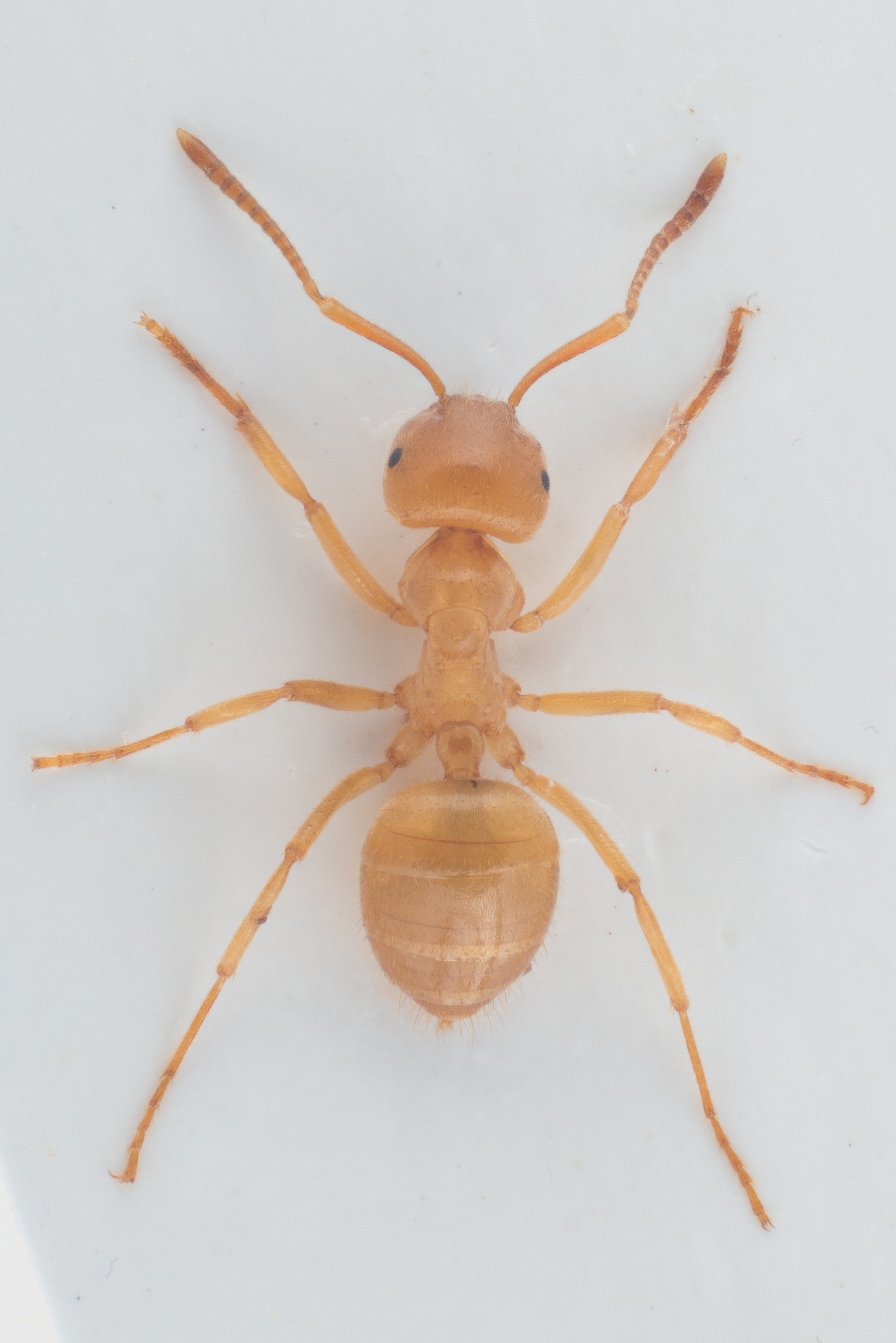 Worker ant of Lasius meridionalis.